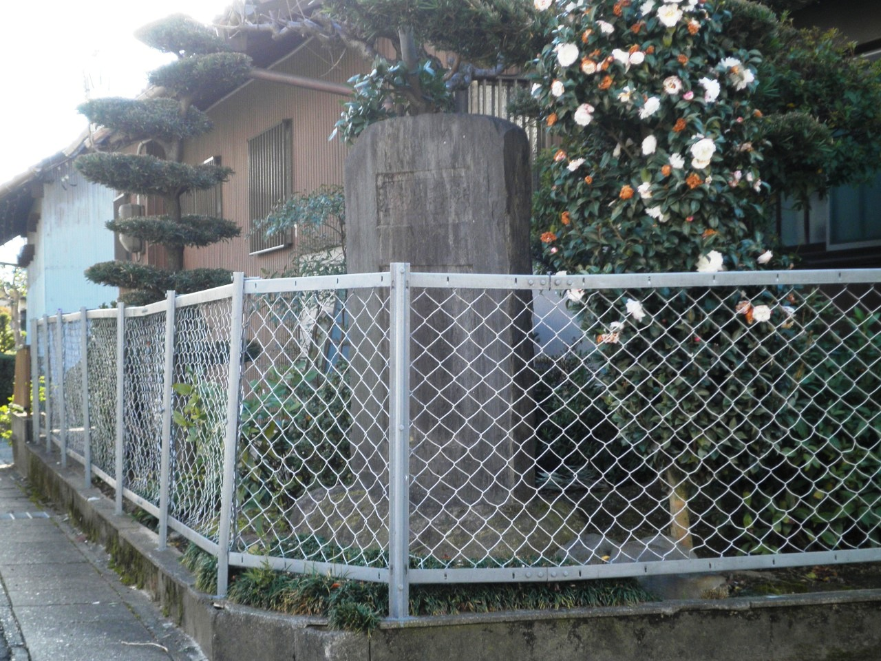 Site of Asano Nagakatsu's residence in Inazawa, Aichi.